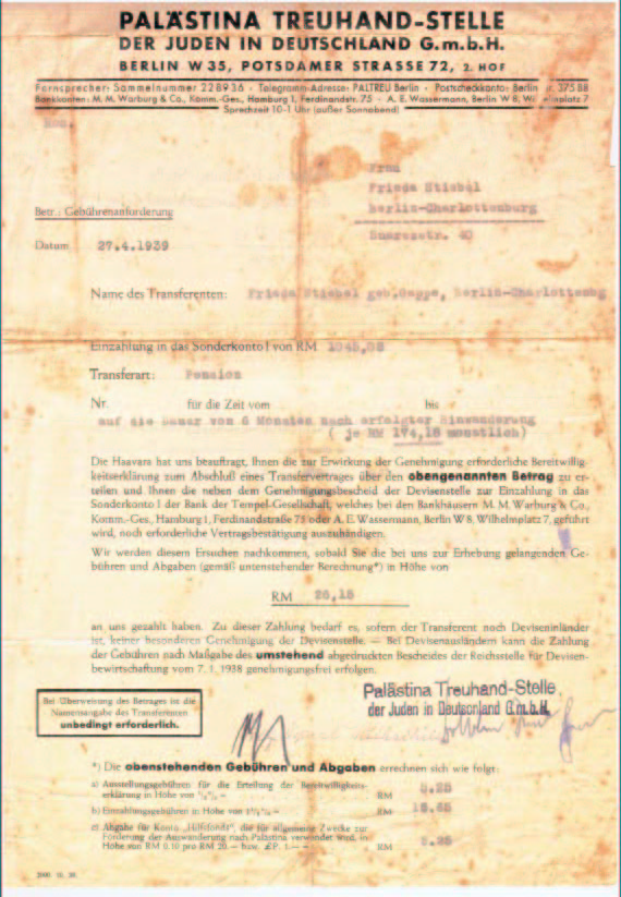 Transfer agreement used by the Palästina Treuhandstelle ("Palestine Trustee Office"), established specifically for Jews wishing to emigrate from Nazi Germany under the Haavara Agreement, to recover some assets when they arrived in Palestine.[1]